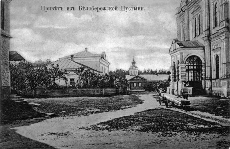 Beloberezhskaya pustyn, near Bryansk. Hospital church and the Cathedral